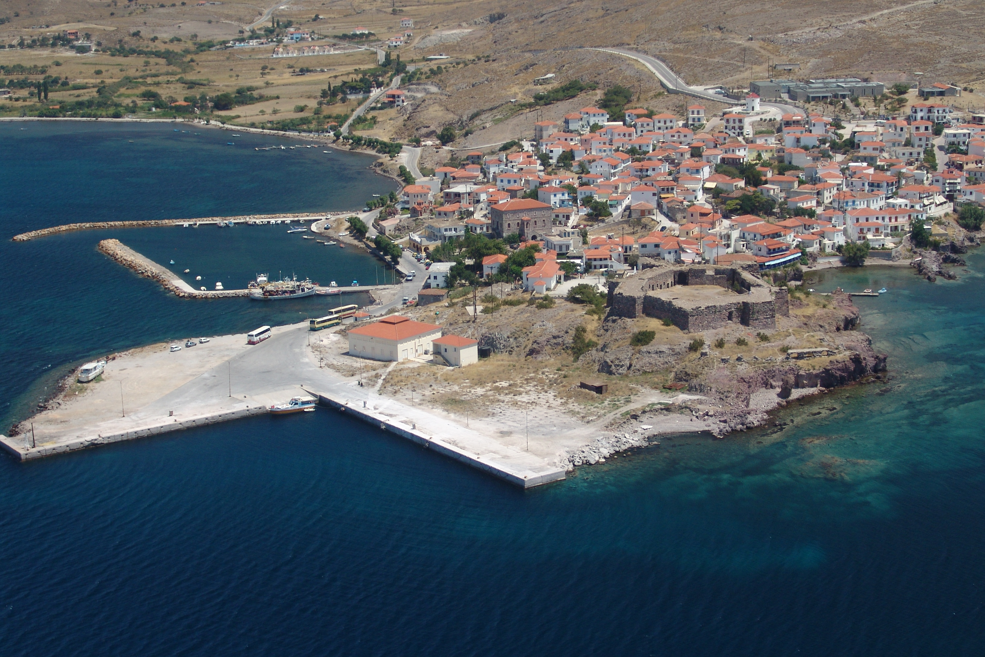 Aerial view of Sigri in summer 2004.